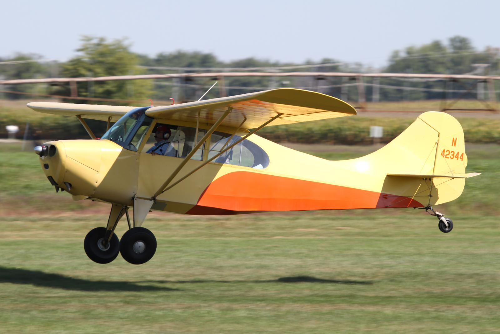 1945 Aeronca 7DC C/N 7AC-409